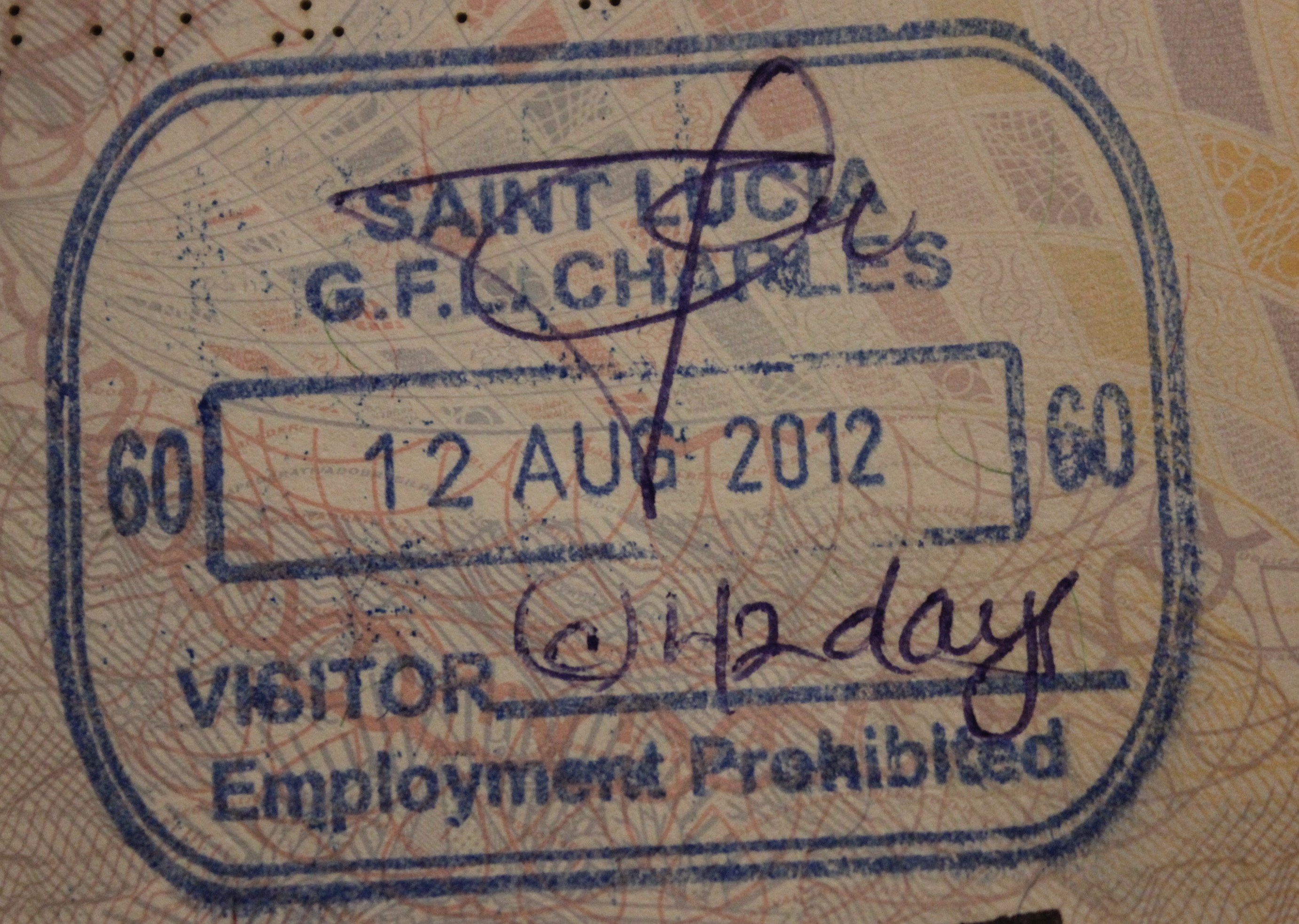 Saint Lucia Entry Stamp - GFL Charles Airport